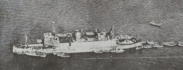 Imperial Japanese Army landing vehicle carrier Shinshū Maru